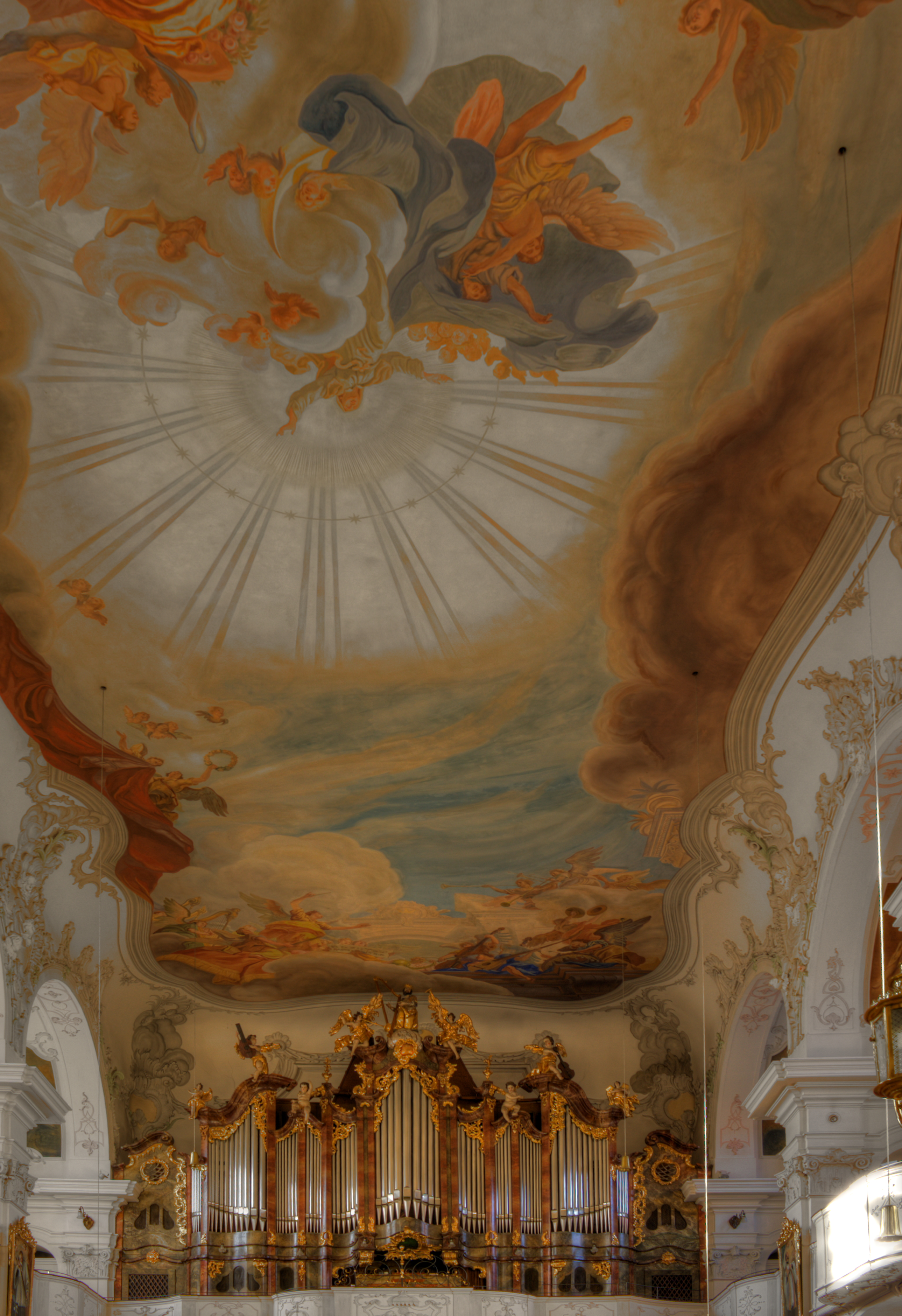 Ceiling and the organ of the Cathedral of "Our Lady" in Lindau on Lake Constance